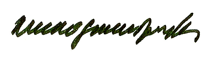 Signature of Milo Dimitrijevic Serbian painter